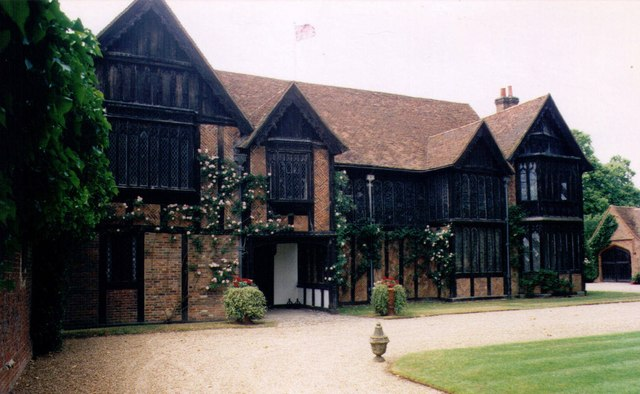 Ockwells Manor House, Cox Green Built in 1466.